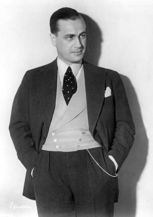 Portrait of German actor Karl Ludwig Diehl (1896–1958) by Alexander Binder, Berlin.